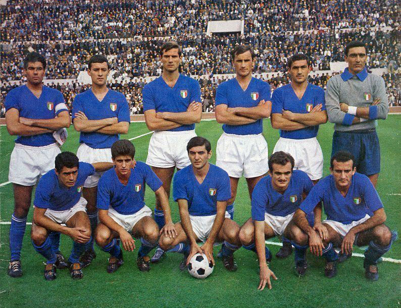 Group photograph of the Italian national association football team that beat Poland 6-1 in Rome at Stadio Olimpico during the European qualifying of the 1966 FIFA World Cup. From left, standing: Sandro Salvadore (c), Roberto Rosato, Giacinto Facchetti, Paolo Barison, Tarcisio Burgnich, William Negri; crouched: Bruno Mora, Gianni Rivera, Giacomo Bulgarelli, Sandro Mazzola e Giovanni Lodetti.